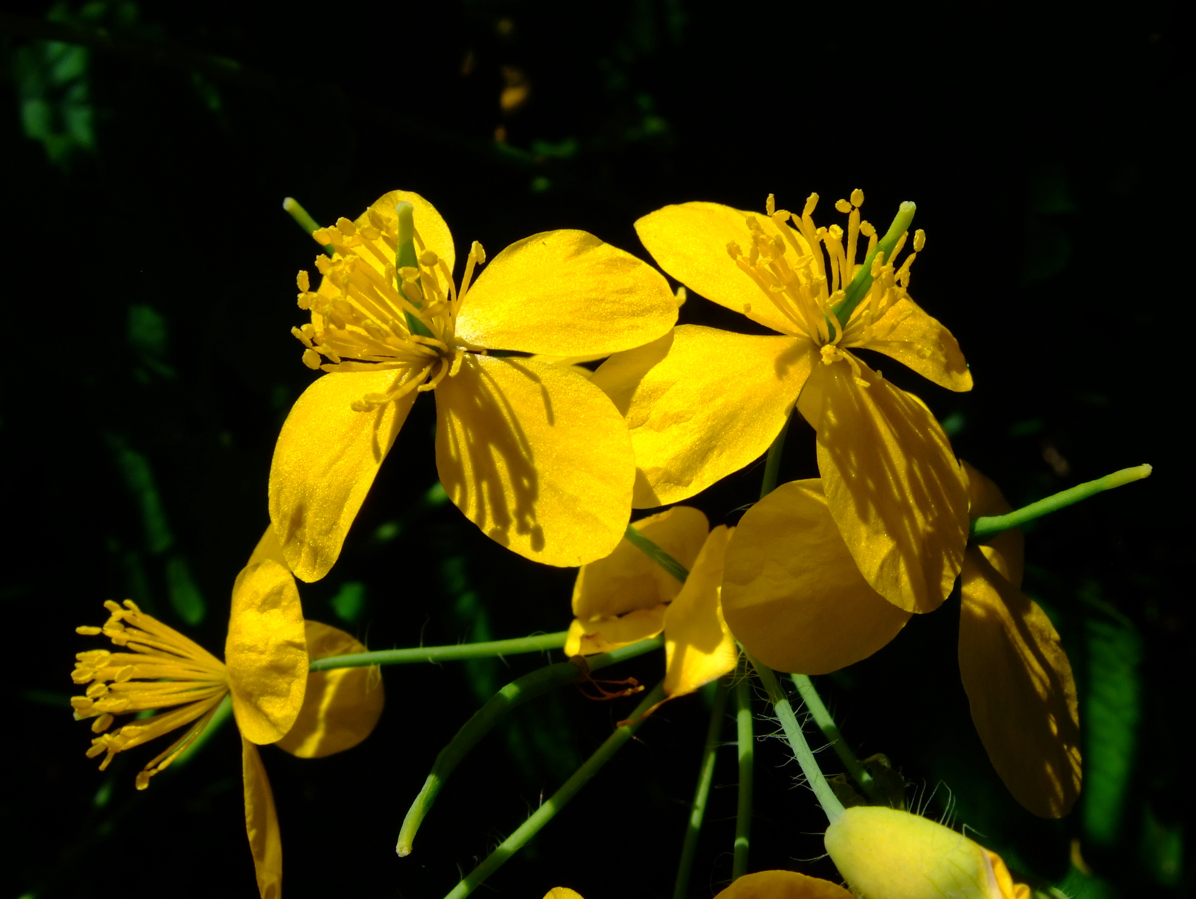 Greater Celandine flowers in Kirchwerder, Hamburg..